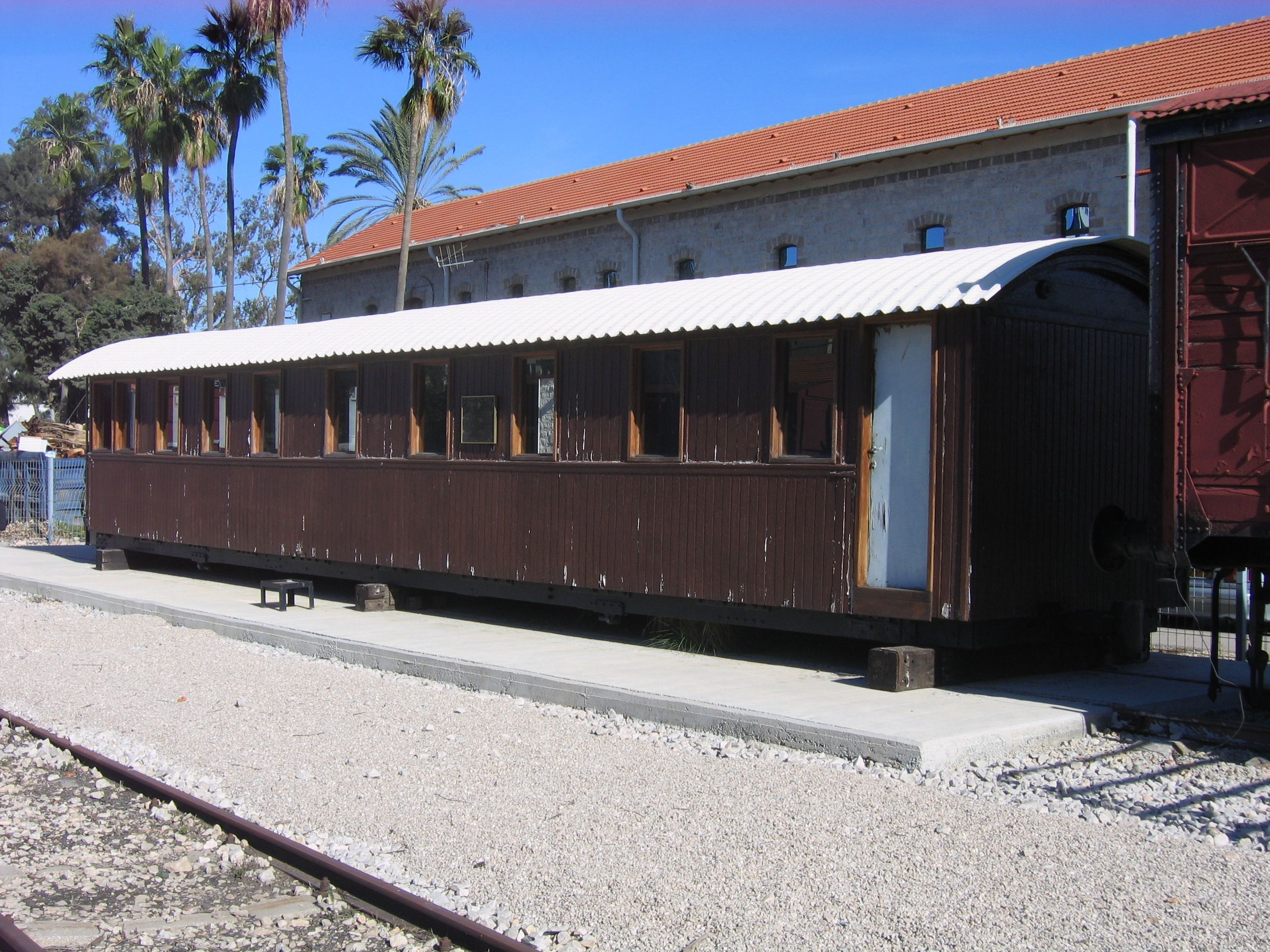 Israel Railway Museum, Haifa: Salon coach of King: salon # 437 of Hejaz Rly. for king bdallah ibn Husain I. of Jordan